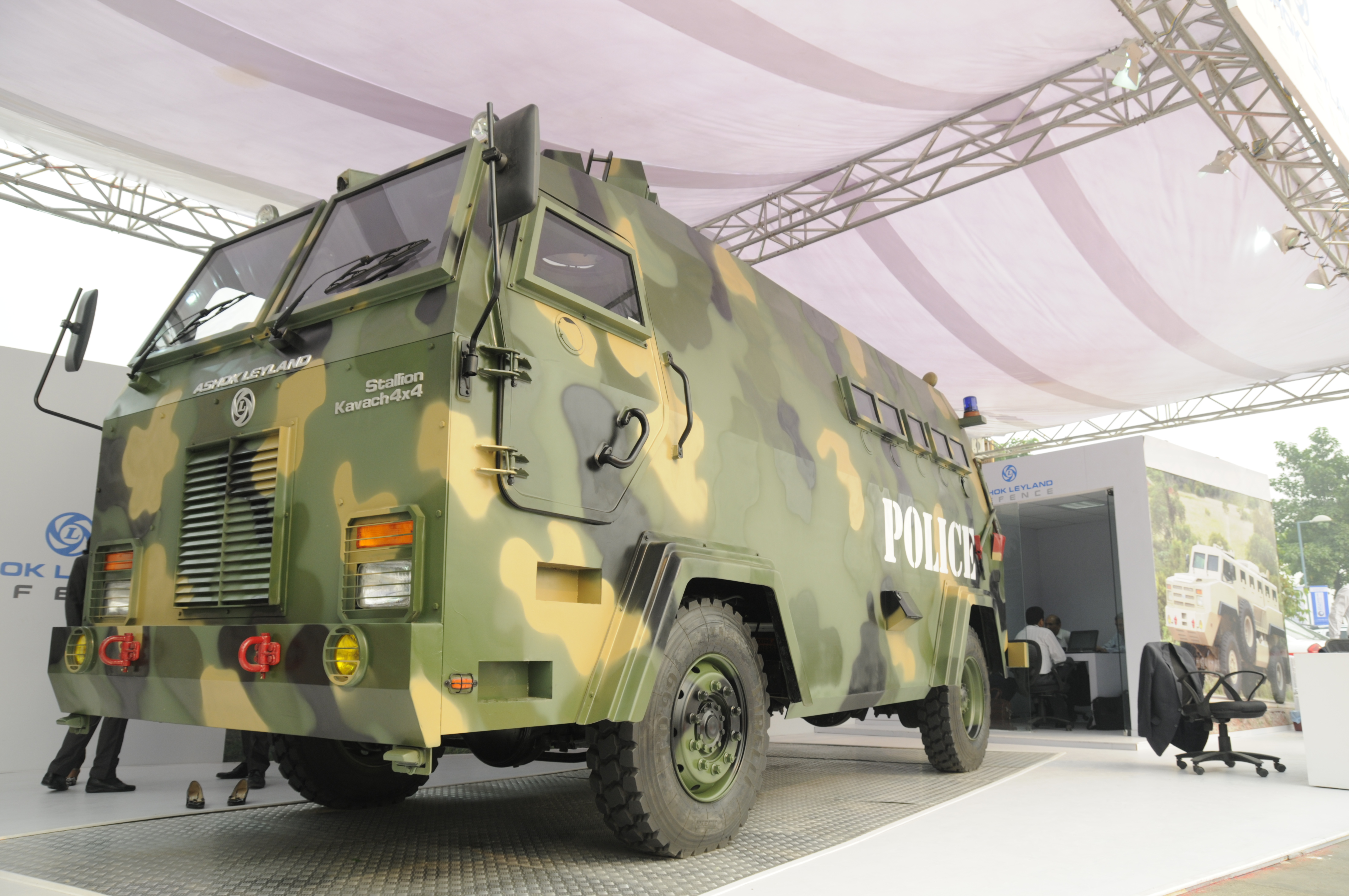 ASHOK LAYLAND STALLION KAVACH